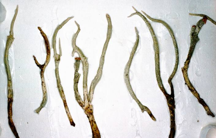 Cladonia gracilis subsp. gracilis (L.) Willd., 1787 Photograph of herbarium specimens showing slender podetia, with pointed tips, and a continuous, unbroken cortex. These specimens were growing on soil along the Blue Trail at the Humboldt Field Research Institute at Eagle Hill in Steuben, Washington County, Maine, USA (Lat. 44o27.585' N, Long. 67o56.016' W). Collected by E.C. Uebel (No. U-91, 10 Jun 2001), identified by Dr. David H.S. Richardson.